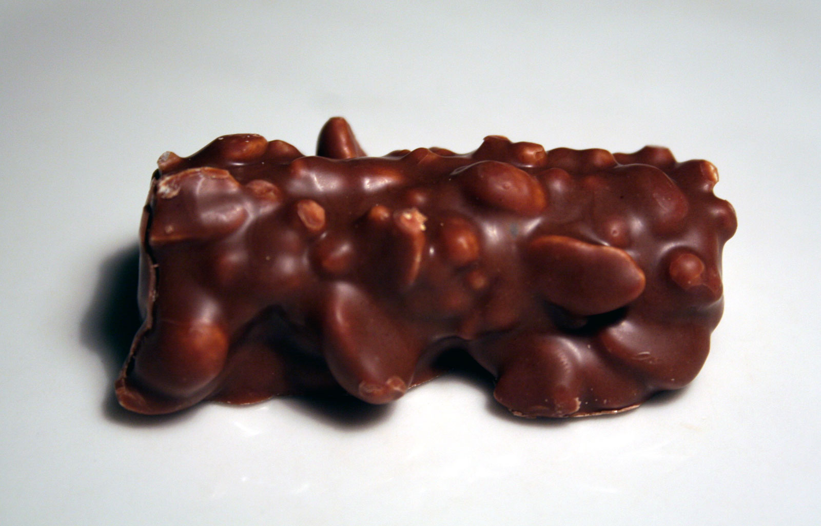 Picnic (chocolate bar) Taken by Enoch Lau on 22 July 2006. As a courtesy, please let me know if you alter this image or this image description page. Original filename was IMG_0340.JPG.